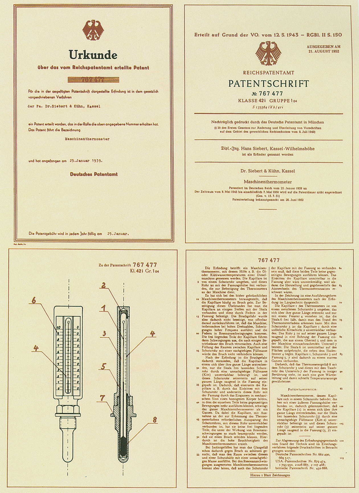 Certificate industrial thermometer